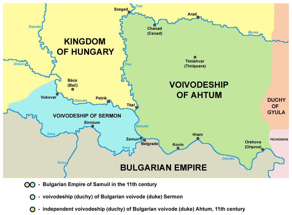 Duchies of Ahtum and Sermon in the 11th century.